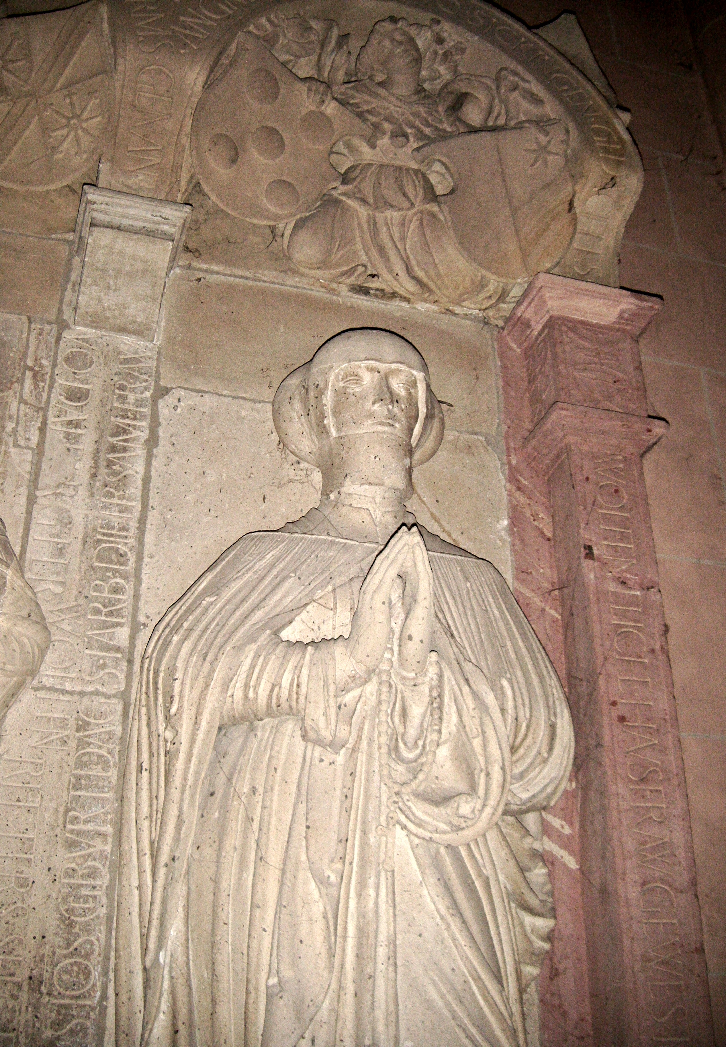 Agnes von Sickingen († 1517), Gemahlin Wolf des Langen von Dalberg († 1522) und Schwester des Franz von Sickingen, auf ihrem Epitaph in der Katharinenkirche Oppenheim